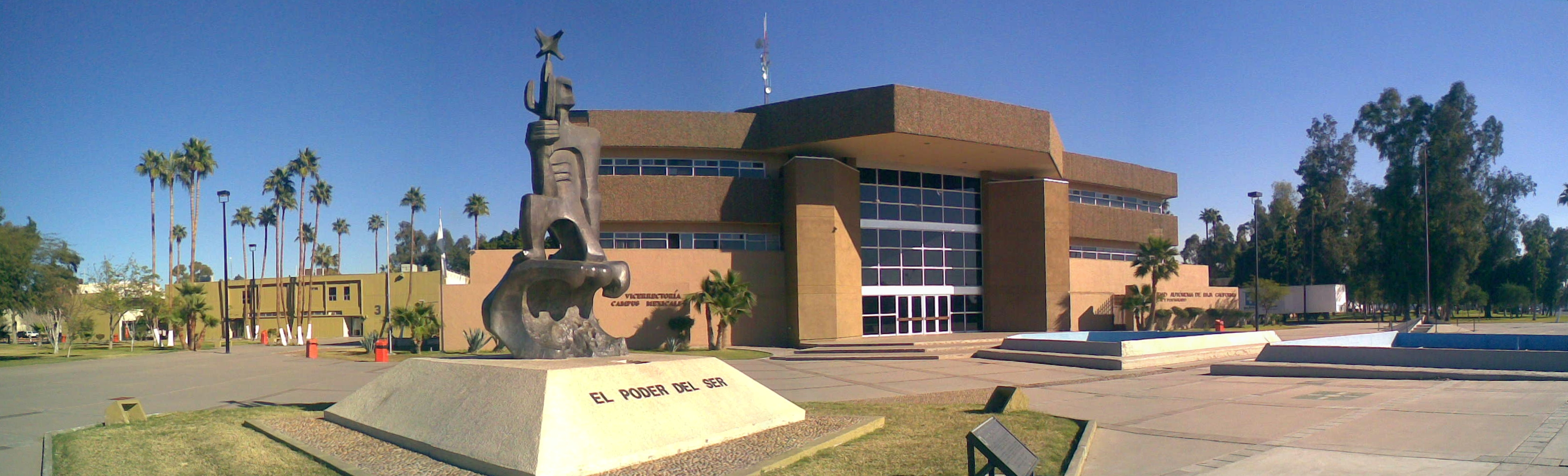 UABC